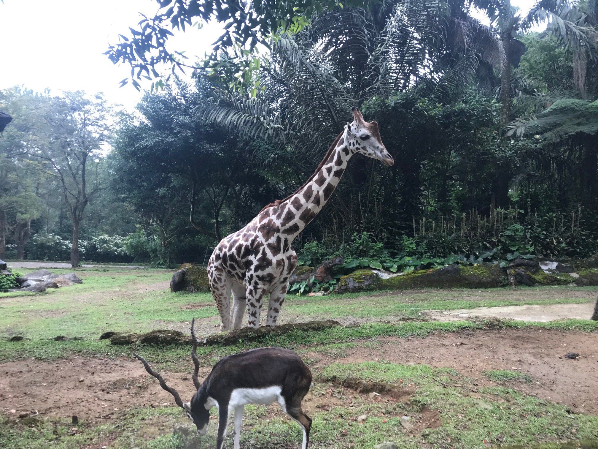 Giraffe at Taman Safari Bogor, Indonesia